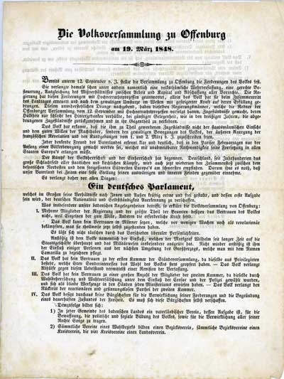 Demand of a people's assembly for a German parliament in Offenburg on 19 March 1848